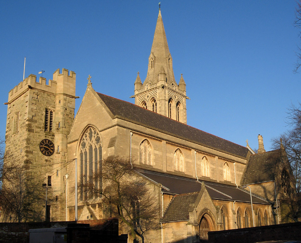 St Andrew's Church in Rugby, Warwickshire. The medieval west tower can be seen on the left. The spire of the east tower was added in the 19th century by William Butterfield.